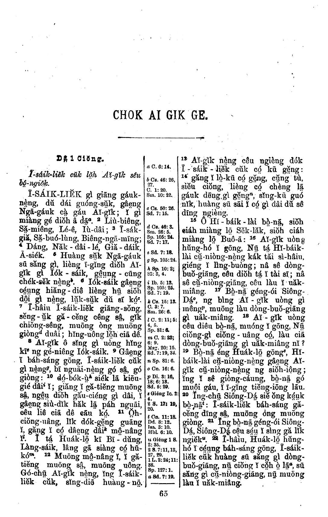 Exodus, Foochowese Bible.